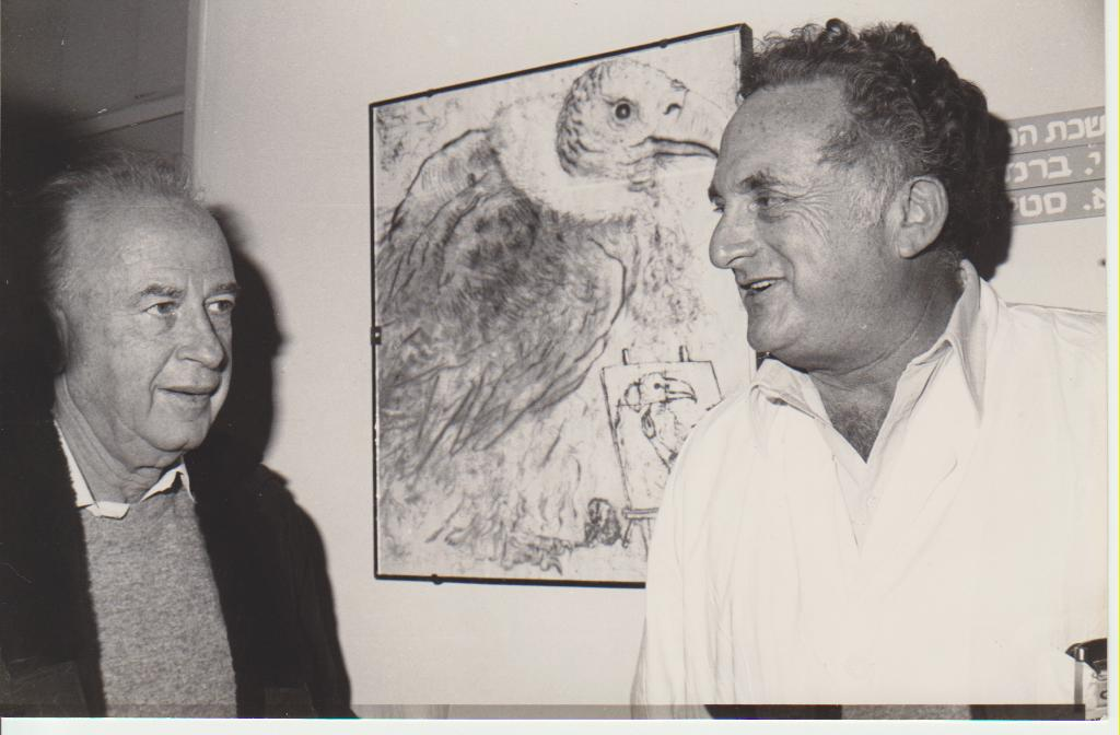 Ministerv of Defense Yitzhak Rabin visiting Prof. Brandes